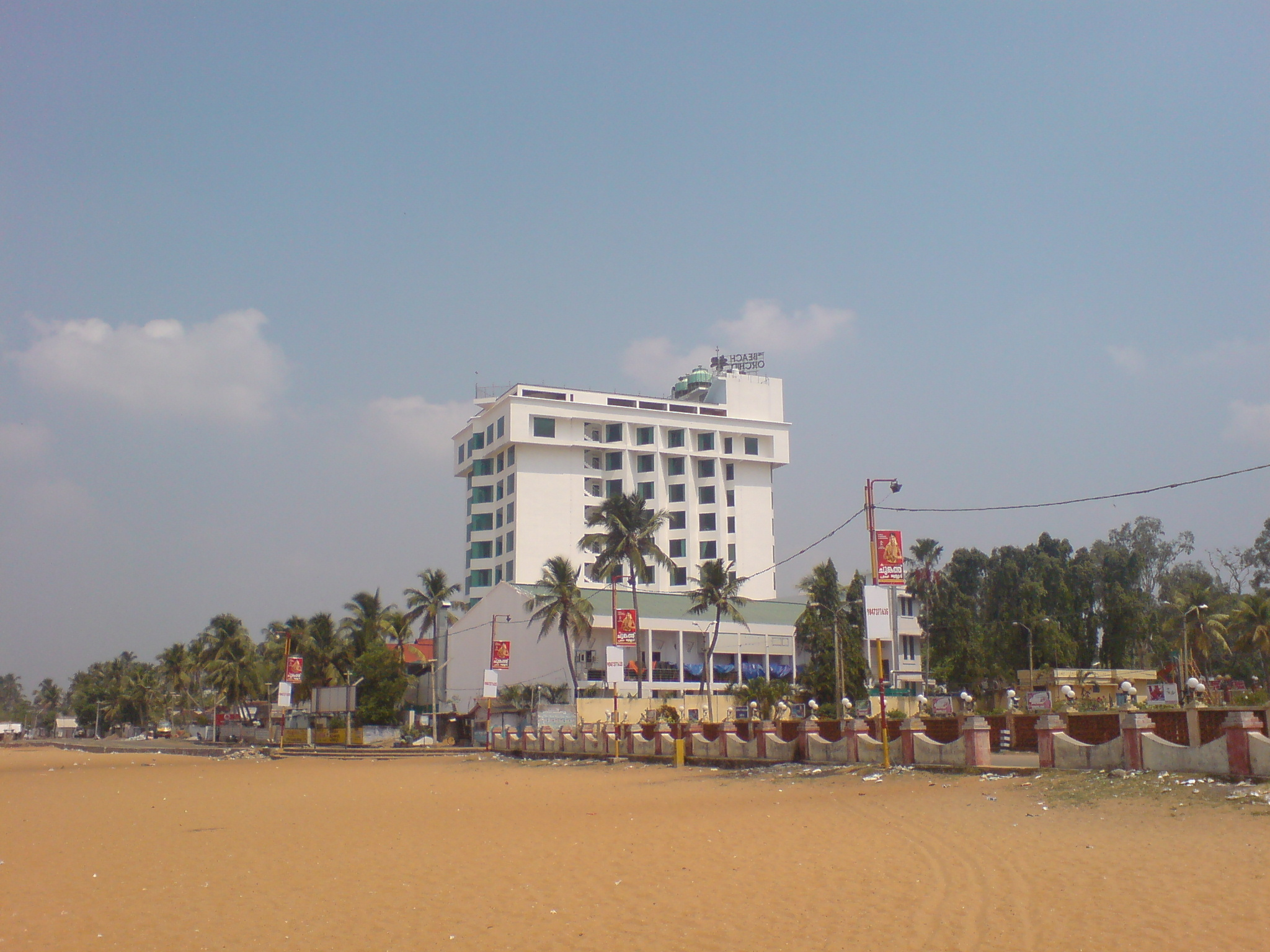 A view of Quilon Beach Hotel from Kollam beach